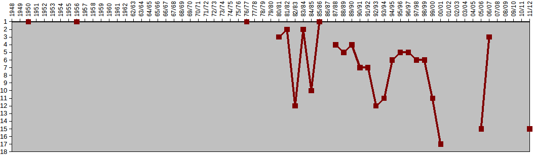 Polonia Bytom second league performance.